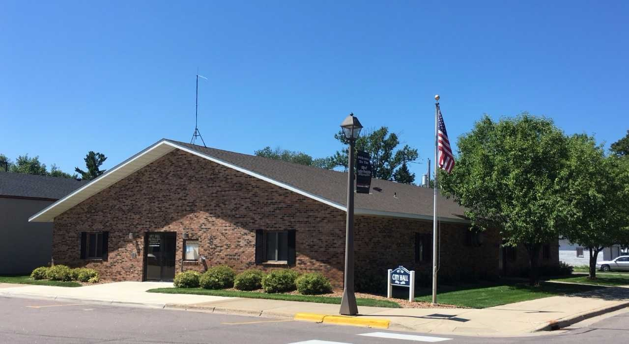 City Hall of Lester Prairie, Minnesota